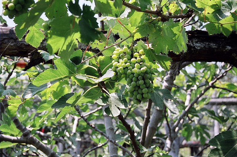 Grapes, Thessaloniki, Greece